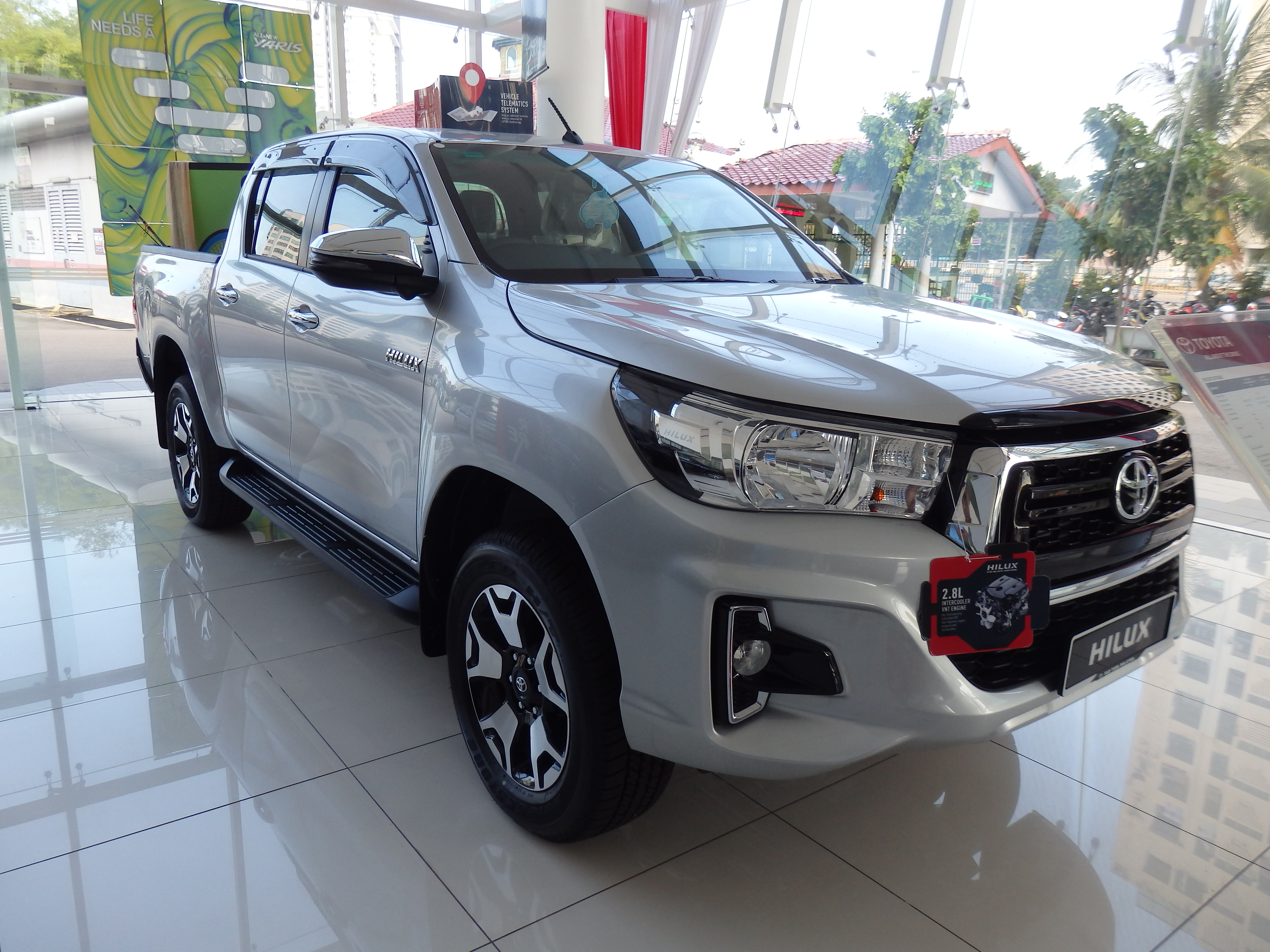 Exterior. Taken at S&D Tama Malaysia Sdn Bhd, Penang, Malaysia on the 25th of December 2019 of a 2019 Toyota Hilux Double Cab 2.4 L-Edition 4x4.